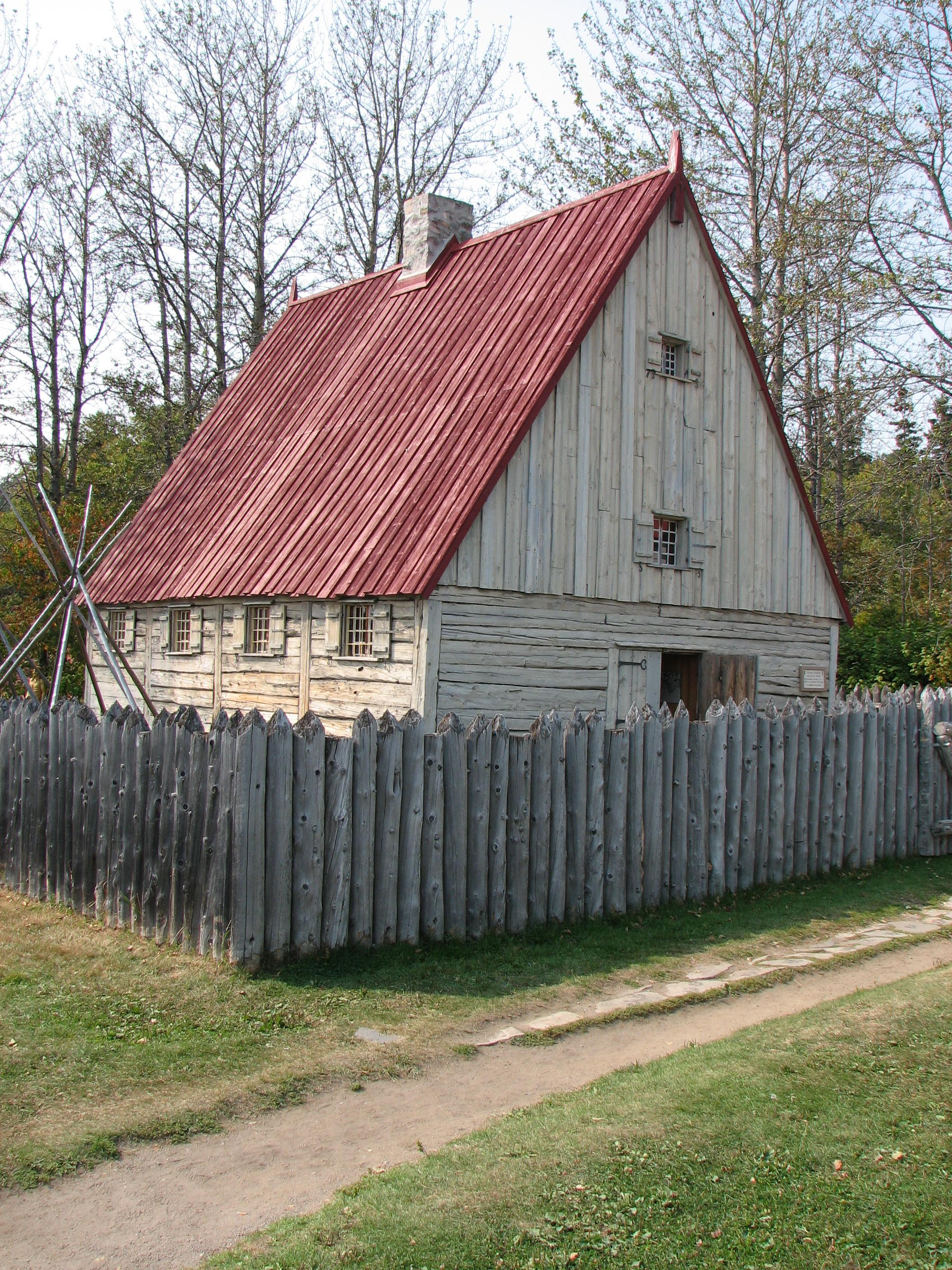 Trade outpost in Tadoussac (Quebec). Oldest european house in North America.